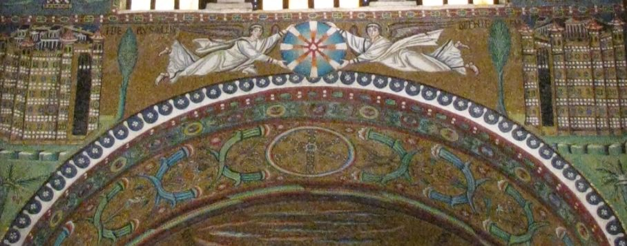 Mosaic in basilica of San Vitale in Ravenna.